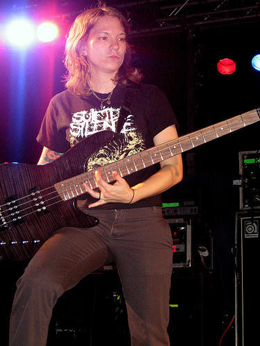 Jeanne Sagan of All That Remains - this is my photograph - I took it, it is mine - I allow it to be on Wikipedia